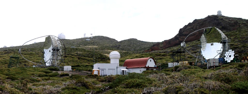 The Cherenkov Telescopes MAGIC I (left), MAGIC II (right) and one of the HEGRA telescopes (in front of MAGIC II). Several enclosures of other telescopes of the Roque de los Muchachos Observatory are visible in the background including the dome of the William Herschel telescope (behind MAGIC I) and of the Nordic Optical Telescope (above MAGIC II).